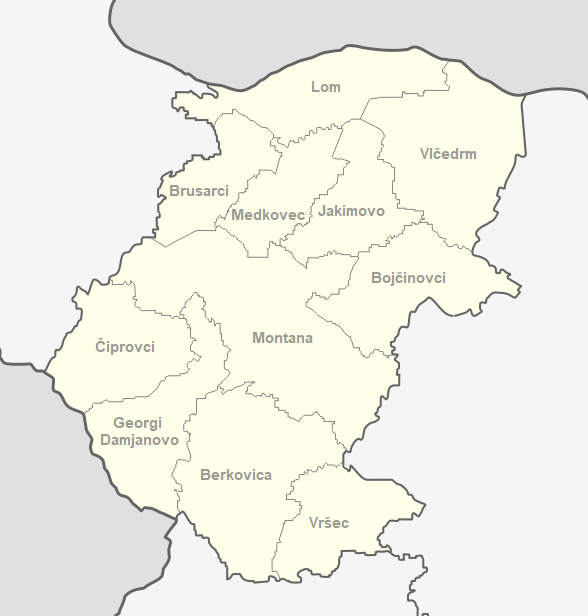 Croatian names on map of Montana District (Bulgaria)